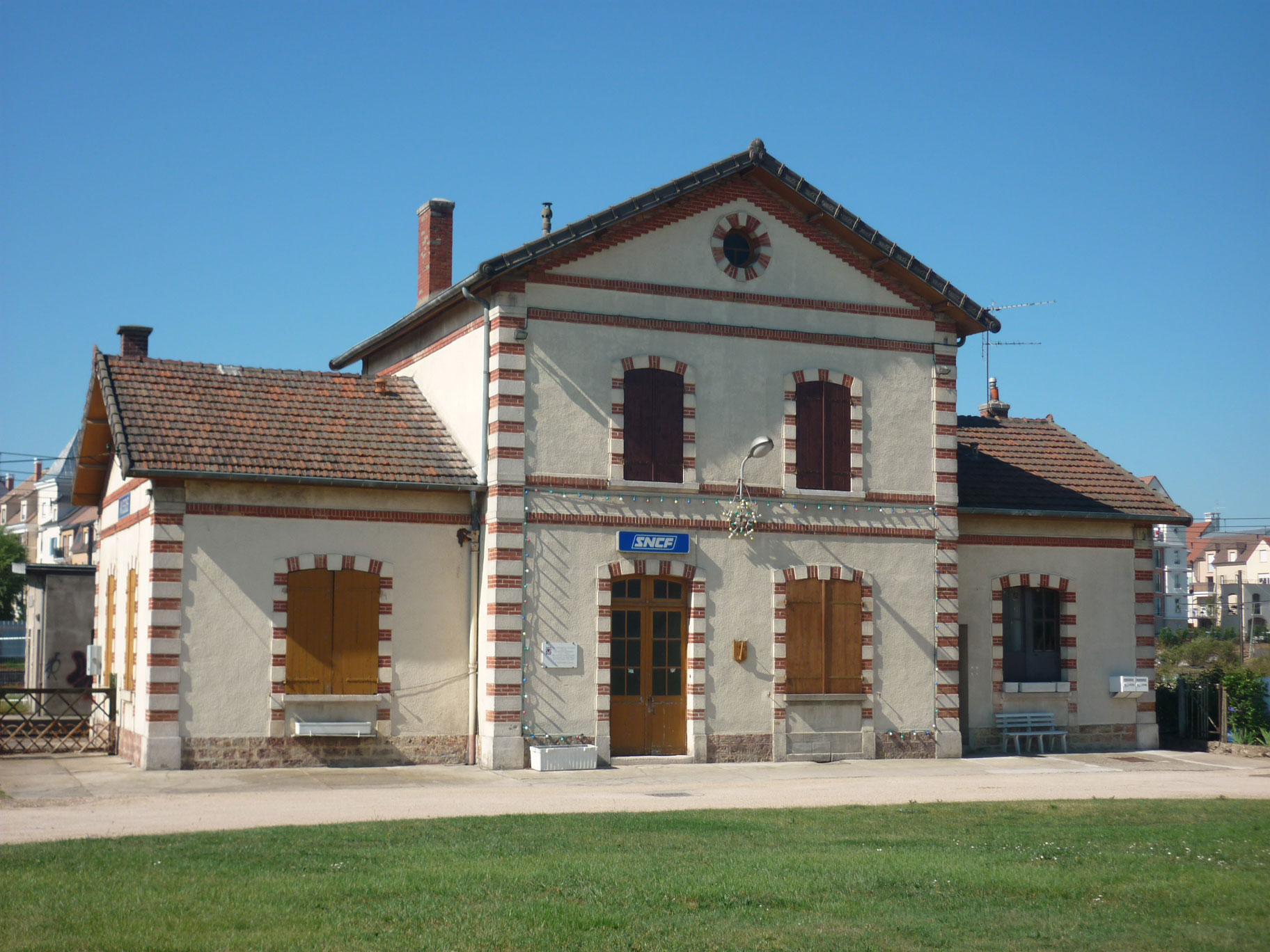 Train station of Wissous